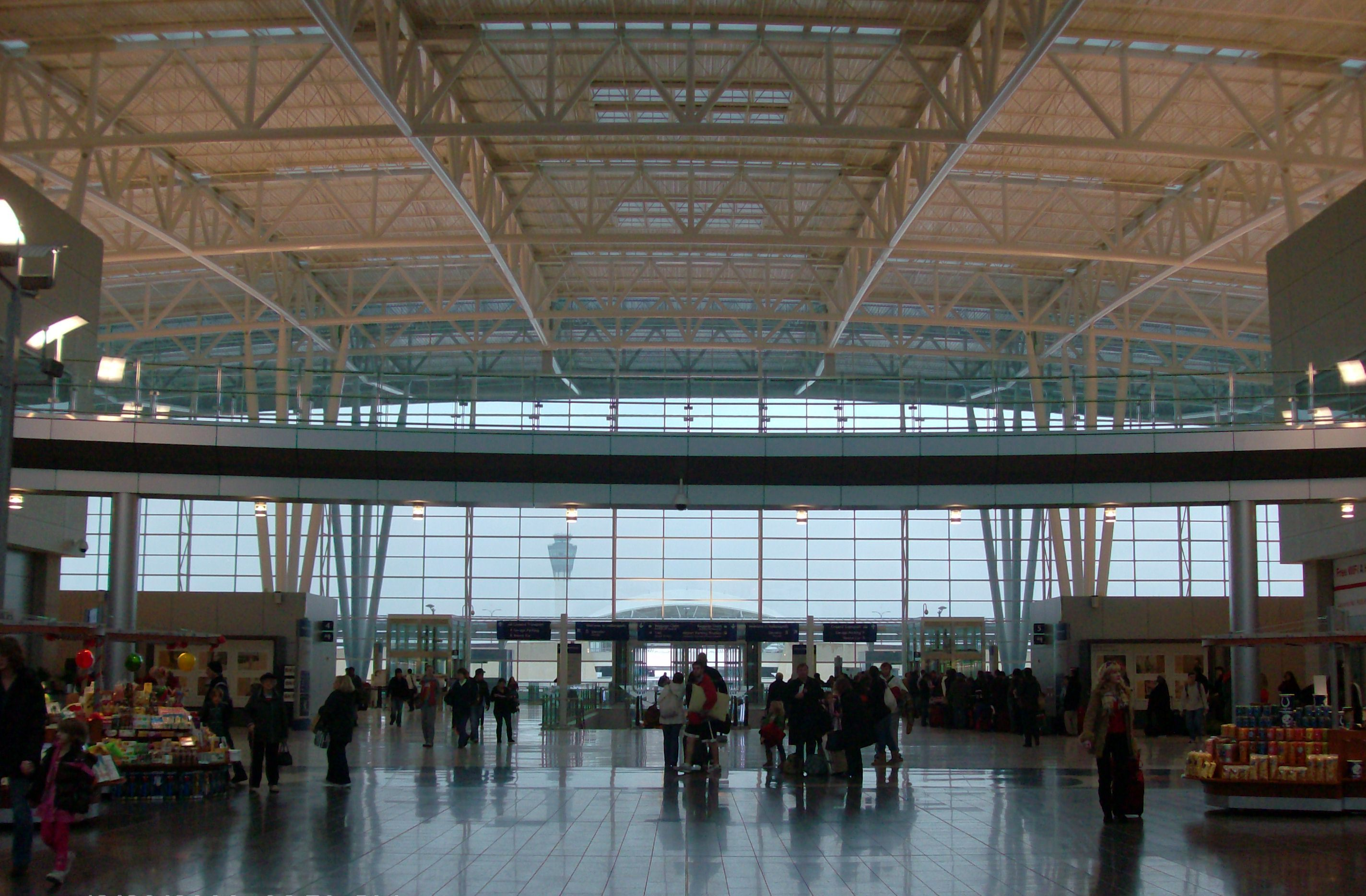 View from Civic Plaza section of Colonel H. Weir Cook Terminal